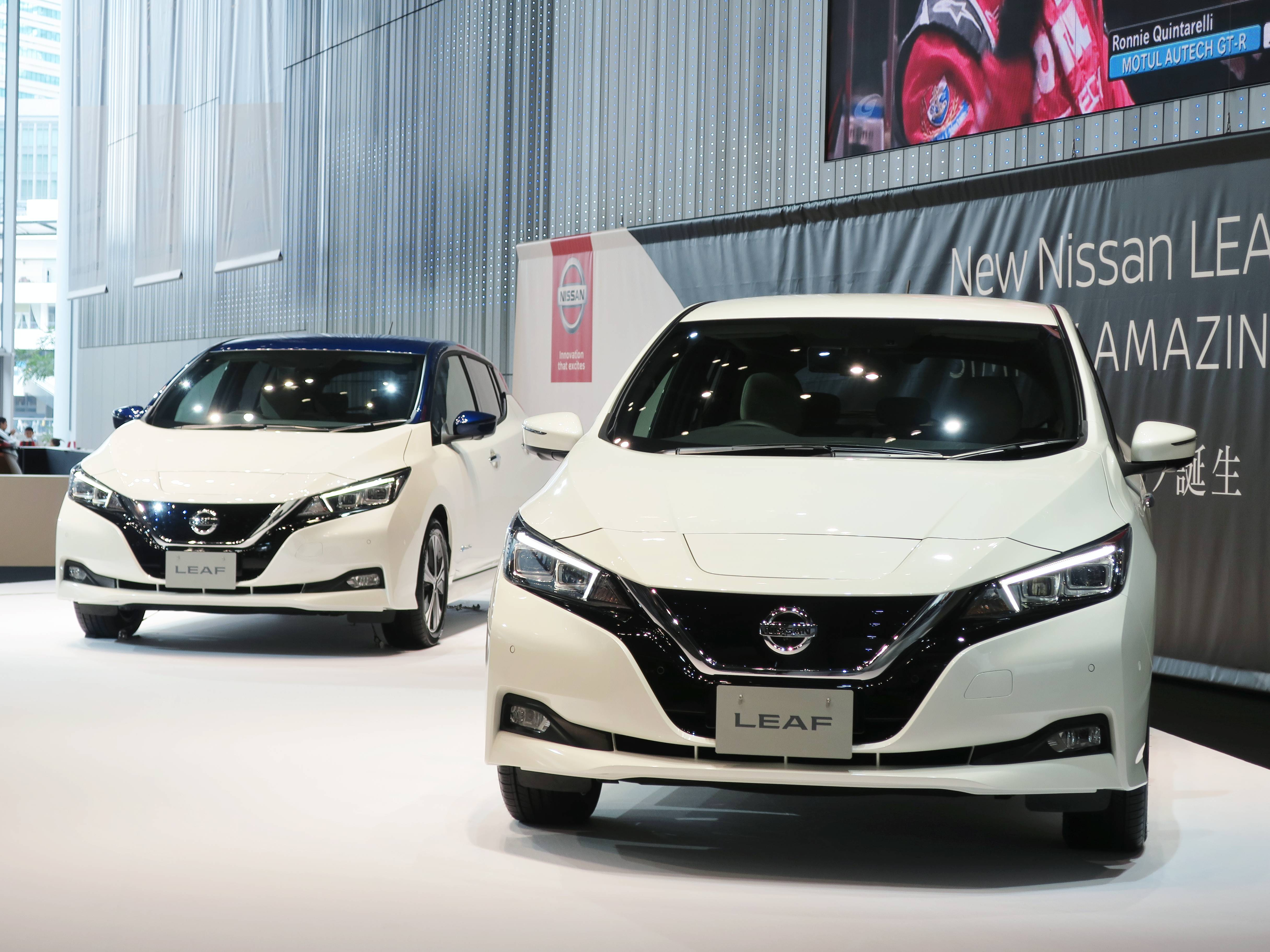 Nissan Leaf second generation (Nissan Global Headquarters Gallery).